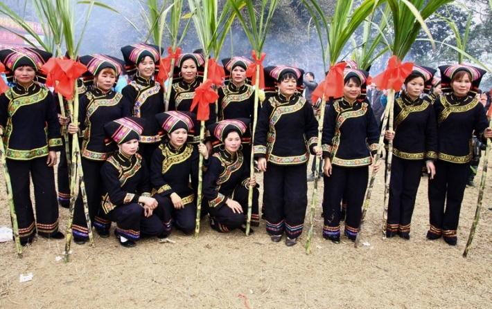 Zhuang women in Chongzuo